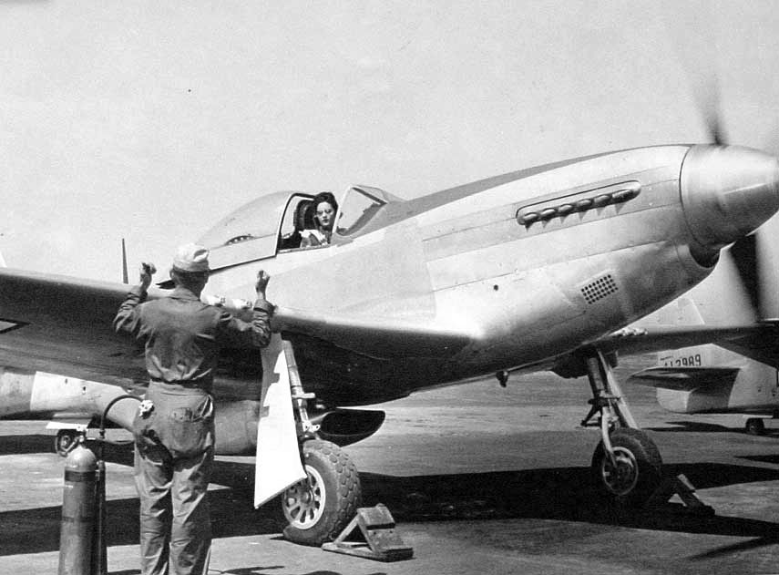 Ferry pilot Florene Watson, WAF, warms up her P-51 (Courtesy: USAF)